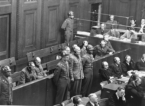 General Lothar Rendulic is being sentenced to twenty years in prison by the Military Tribunal V during the Hostages Trial in Nuremberg. This photograph was taken by US Army photographers on behalf of the Office of Chief of Counsel for War Crimes (OCCWC) during the trial, which lasted from May 1947 until February 1948. The photograph was first published in the official trial proceedings: Trials of War Criminals Before the Nuremberg Military Tribunals Under Control Council Law No. 10, Vol. XI: United States of America vs. Wilhelm List, et. al. (Case 7: „Hostages Case“). US Government Printing Office, District of Columbia 1950, pg. 762. The USHMM-Website wrongly claims copyright on this photograph, stating courtesy of John W. Mosenthal. Mosenthal was a research analyst working on the final compilation and editing of the proceedings manuscript (Vol. XI) in his official function for the War Crimes Division, Office of the Judge Advocate General, and as such this photograph is PD-U.S. Gov-Military-Army.